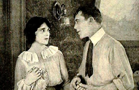 Still from the American drama film Restless Souls (1919) with Alma Rubens and Jack Conway, on page 12 of the April 1919 Film Fun. The poor sister and her husband are reconciled.